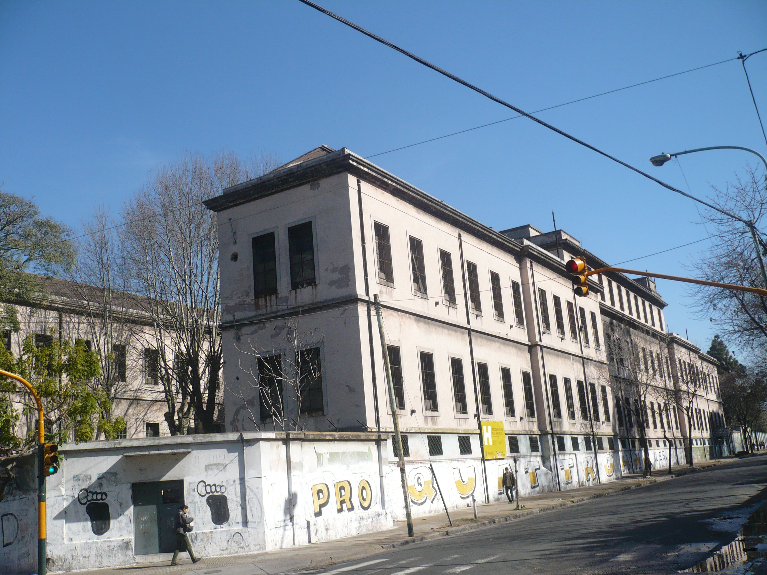 Moyano Hospital, Buenos Aires.